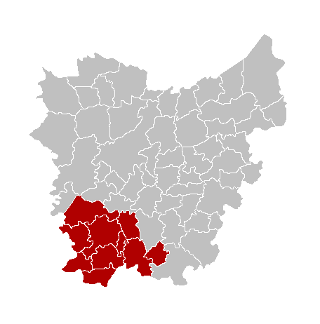 Map of the province East-Flanders, showing Oudenaarde arrondissement in red.